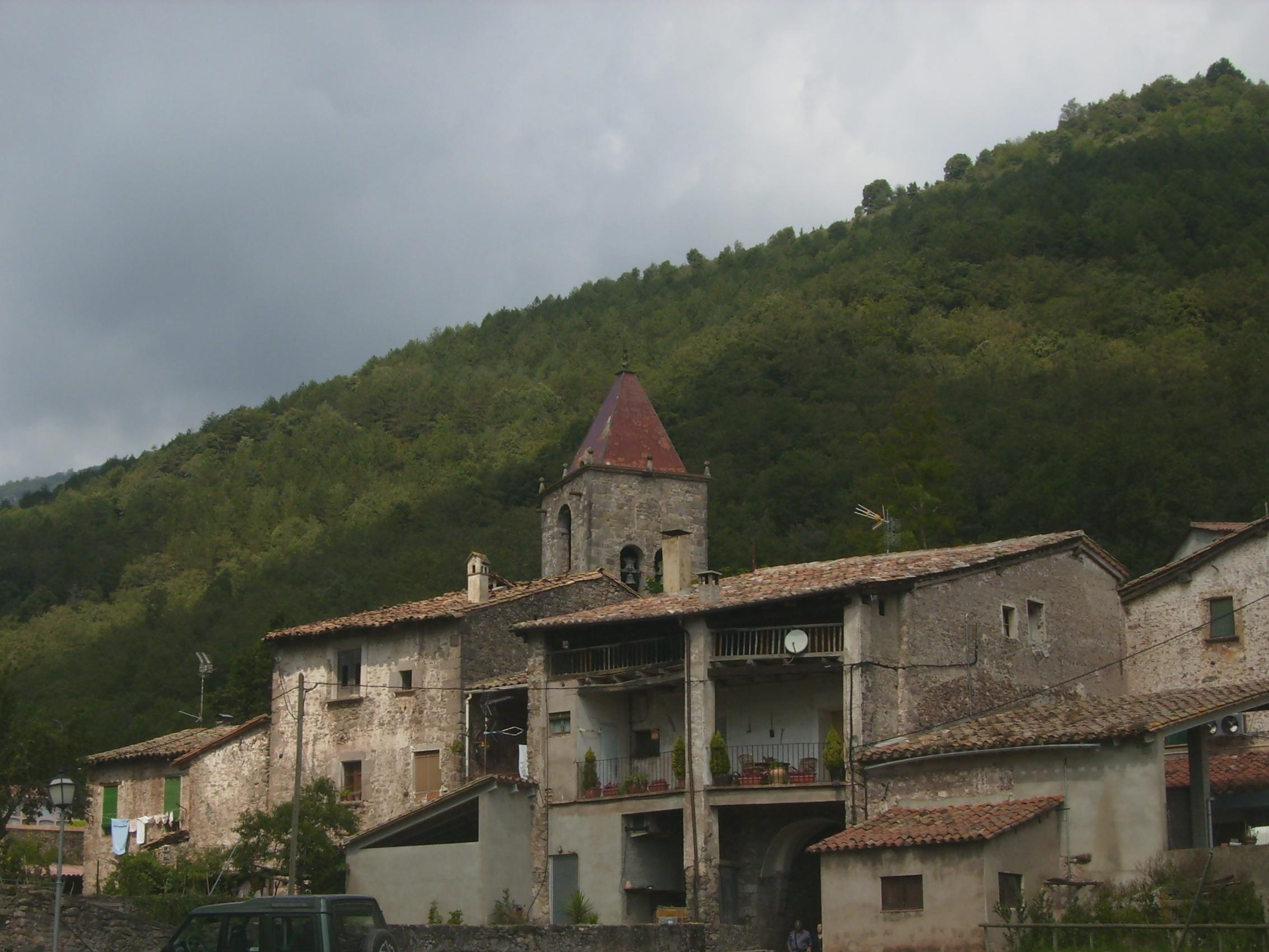 Panoramic view of Sant Privat d'en Bas (Catalonia)